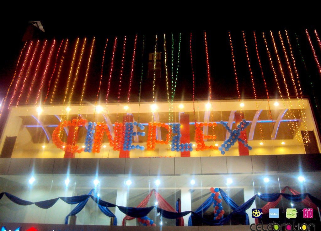 jeypore multiplex